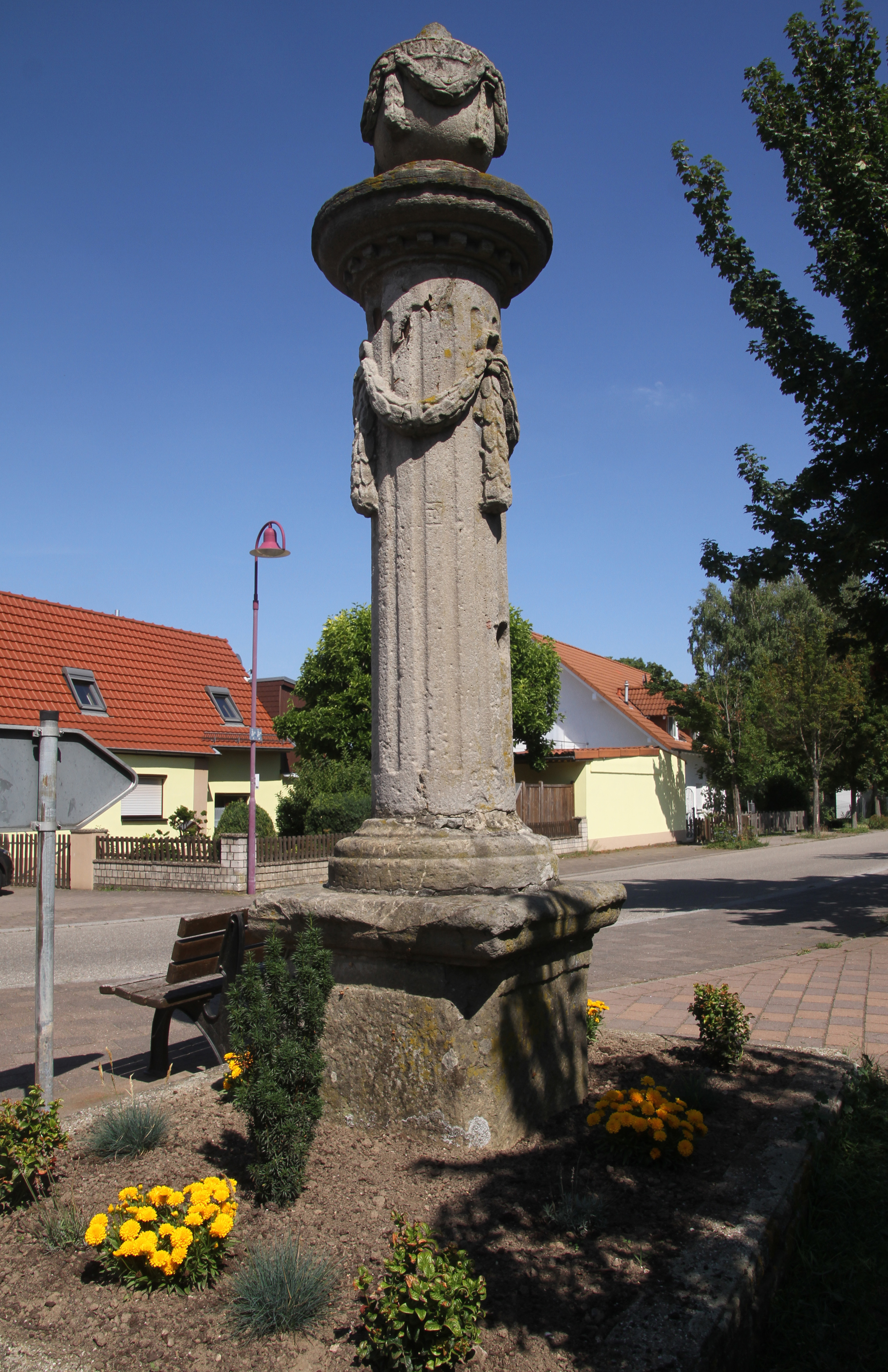 Cultural heritage monument in Steinweiler (Pfalz).